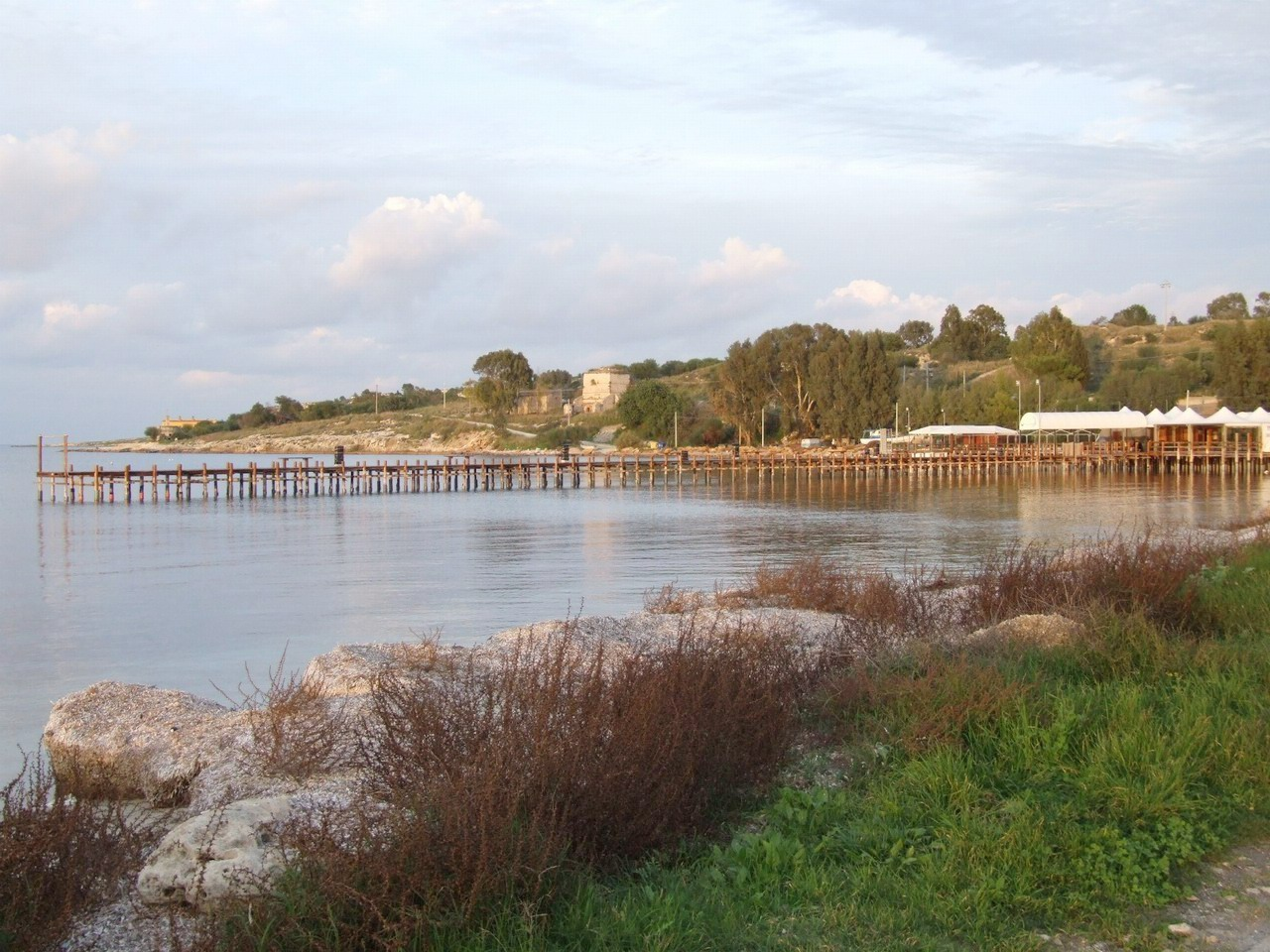 Brucoli Siracusa Syracuse Italy Italia Castielli CC0